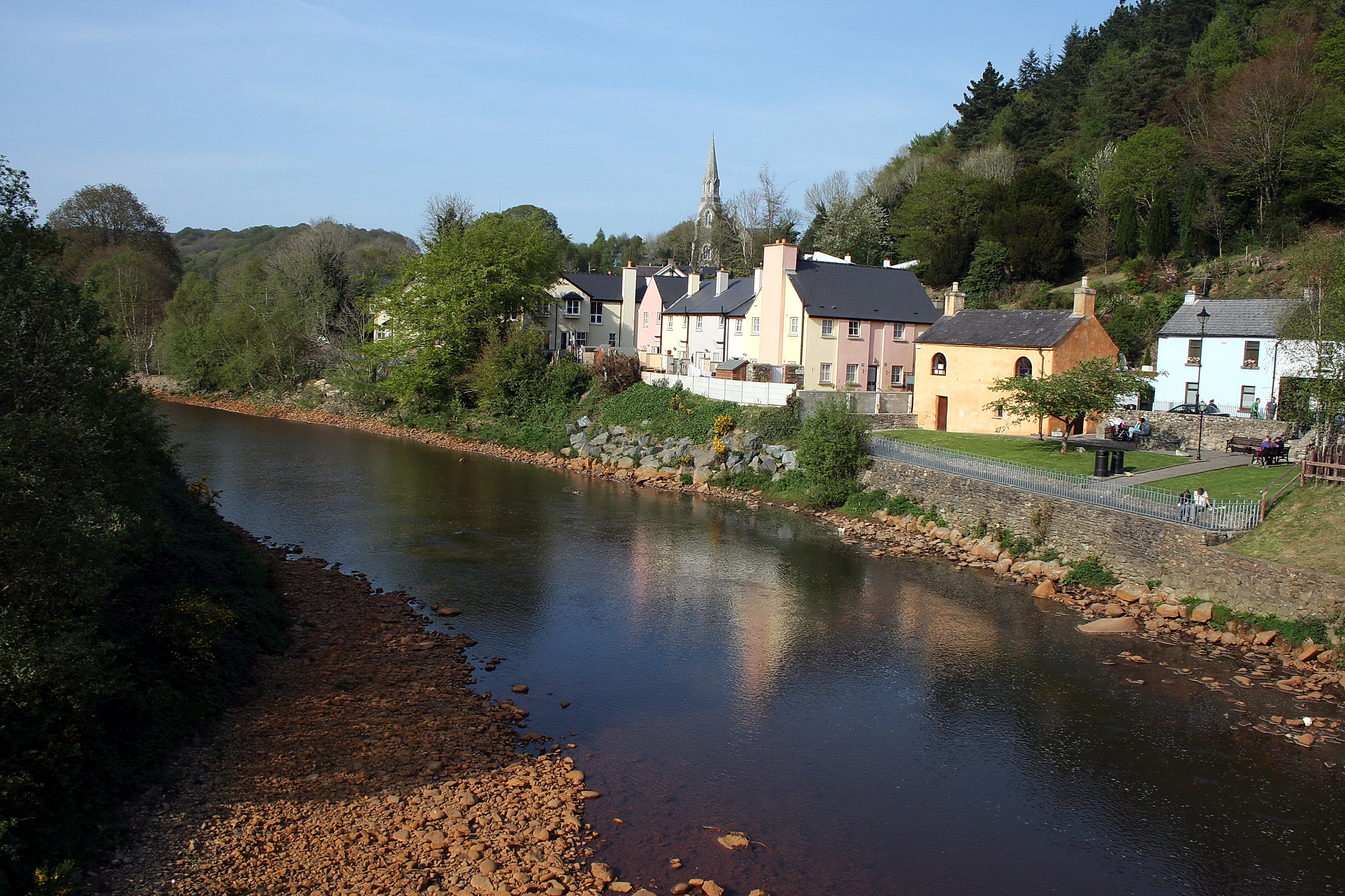 The River Avoca at the village of Avoca. Note the colour of the stones on the river bed; it is caused by centuries of run-off from the Copper Mines upstream.